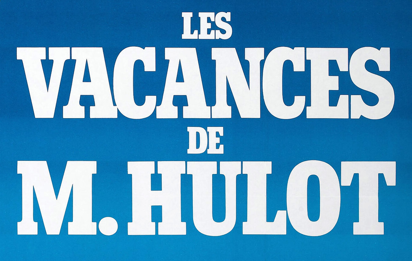 Official Logo of the movie "Les Vacances de Monsieur Hulot" (1953)